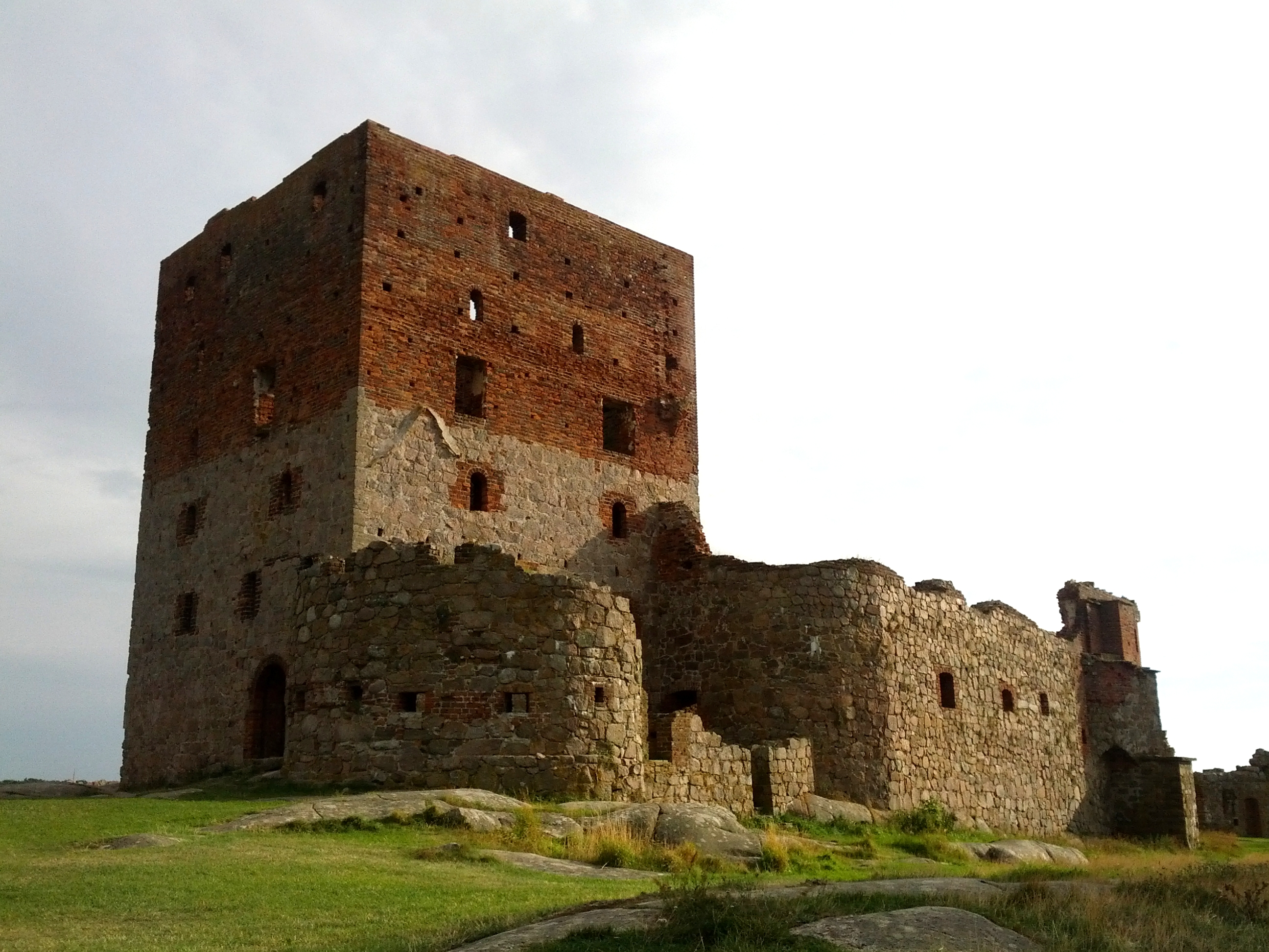 Ruinen set fra indgangen